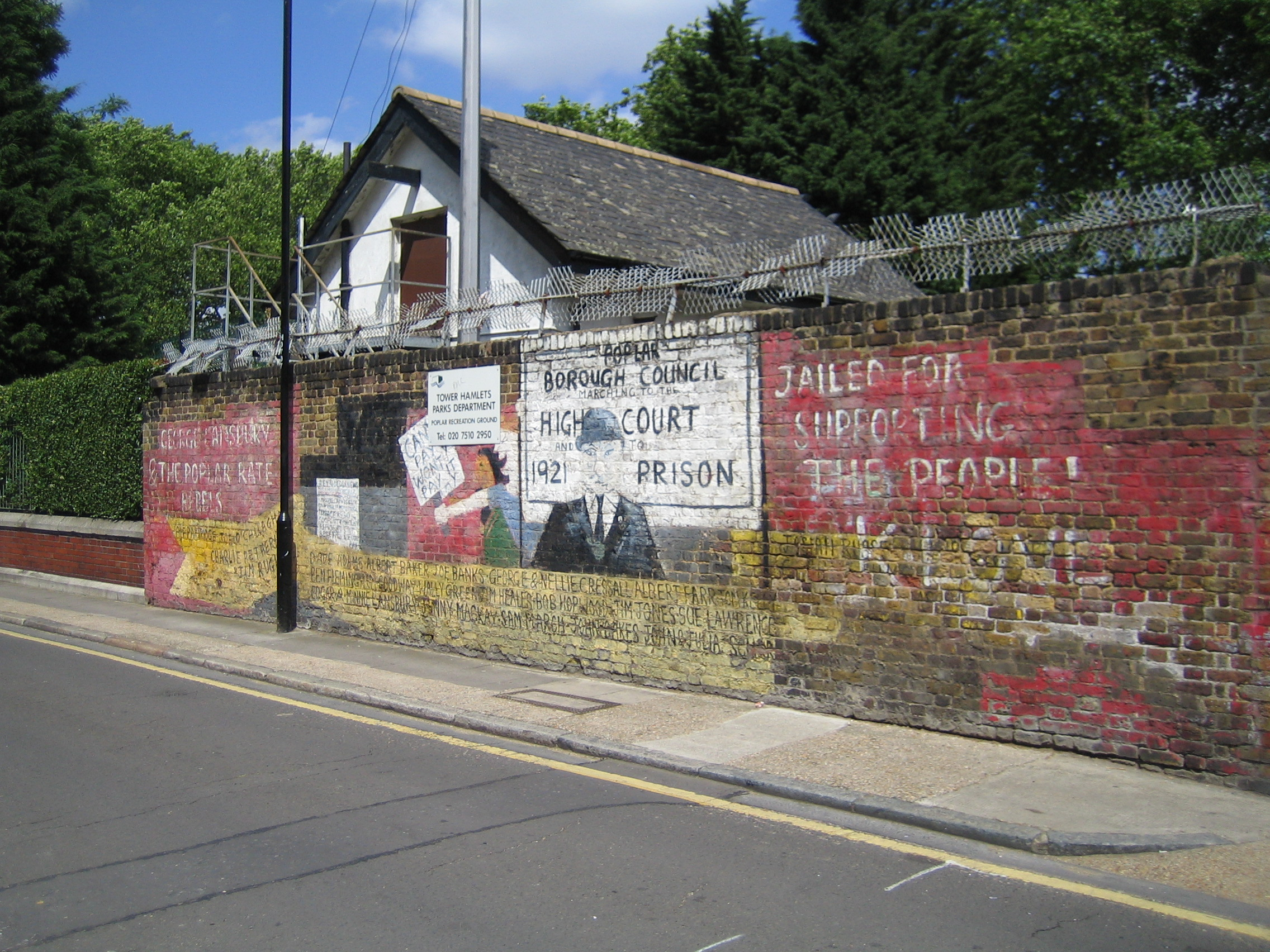 Mural depicting the Poplar Rates Rebellion in 1921, on a wall at the Poplar Recreation Ground, Poplar, East London, UK